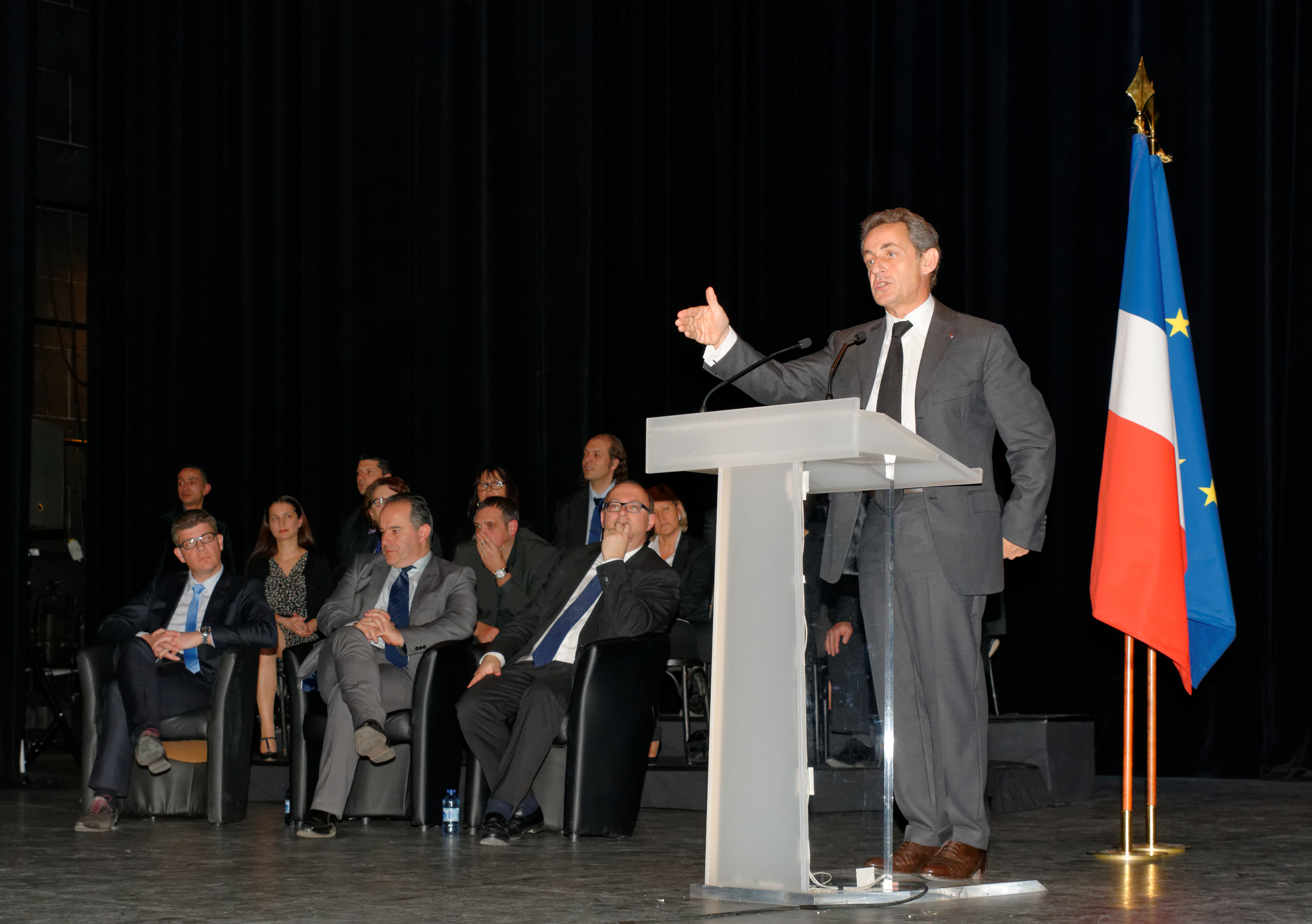 Personality rights warningAlthough this work is freely licensed or in the public domain, the person(s) shown may have rights that legally restrict certain re-uses unless those depicted consent to such uses. In these cases, a model release or other evidence of consent could protect you from infringement claims.